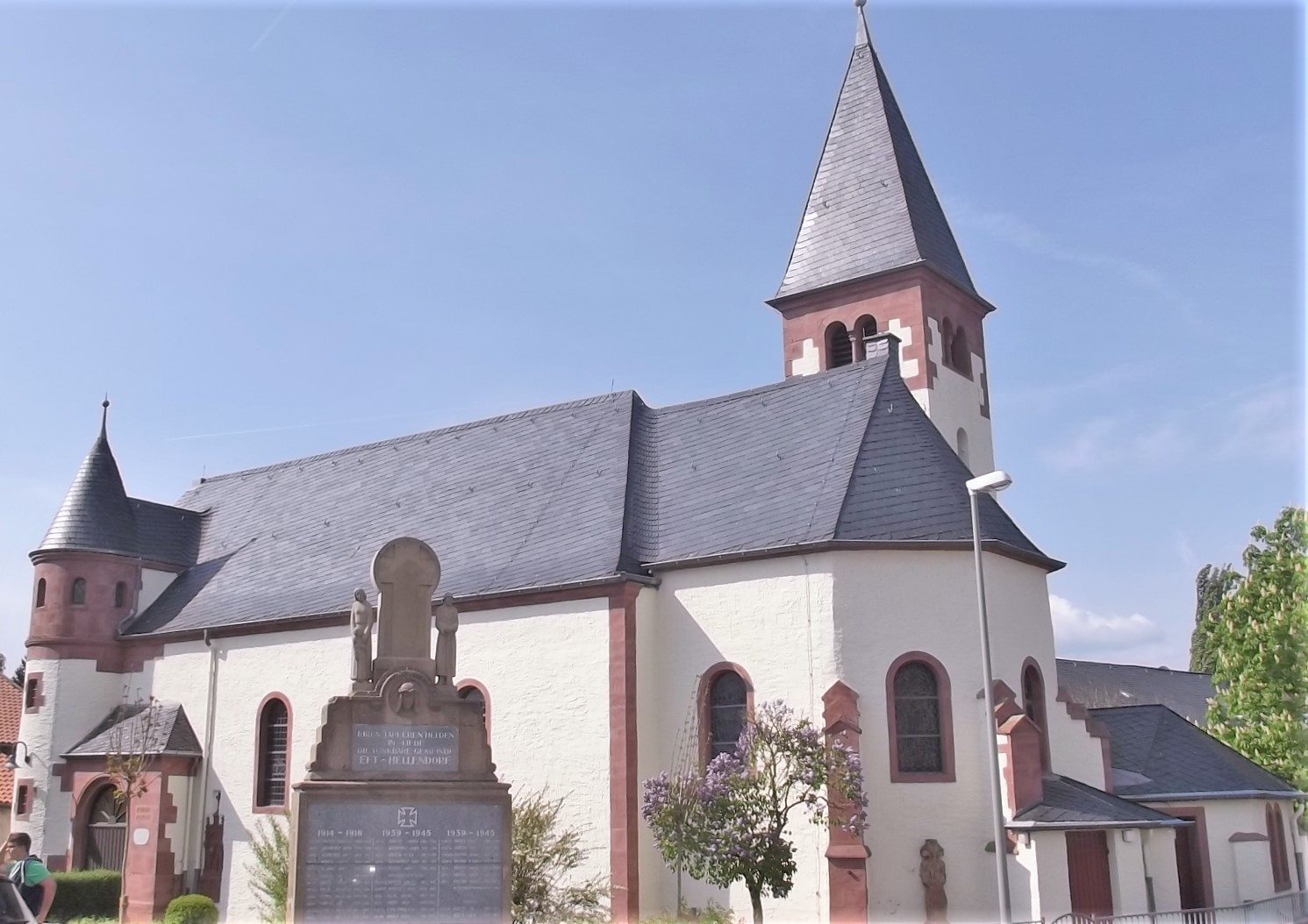 Exterior of the roman catholic church in Eft-Hellendorf, Saarland, Germany